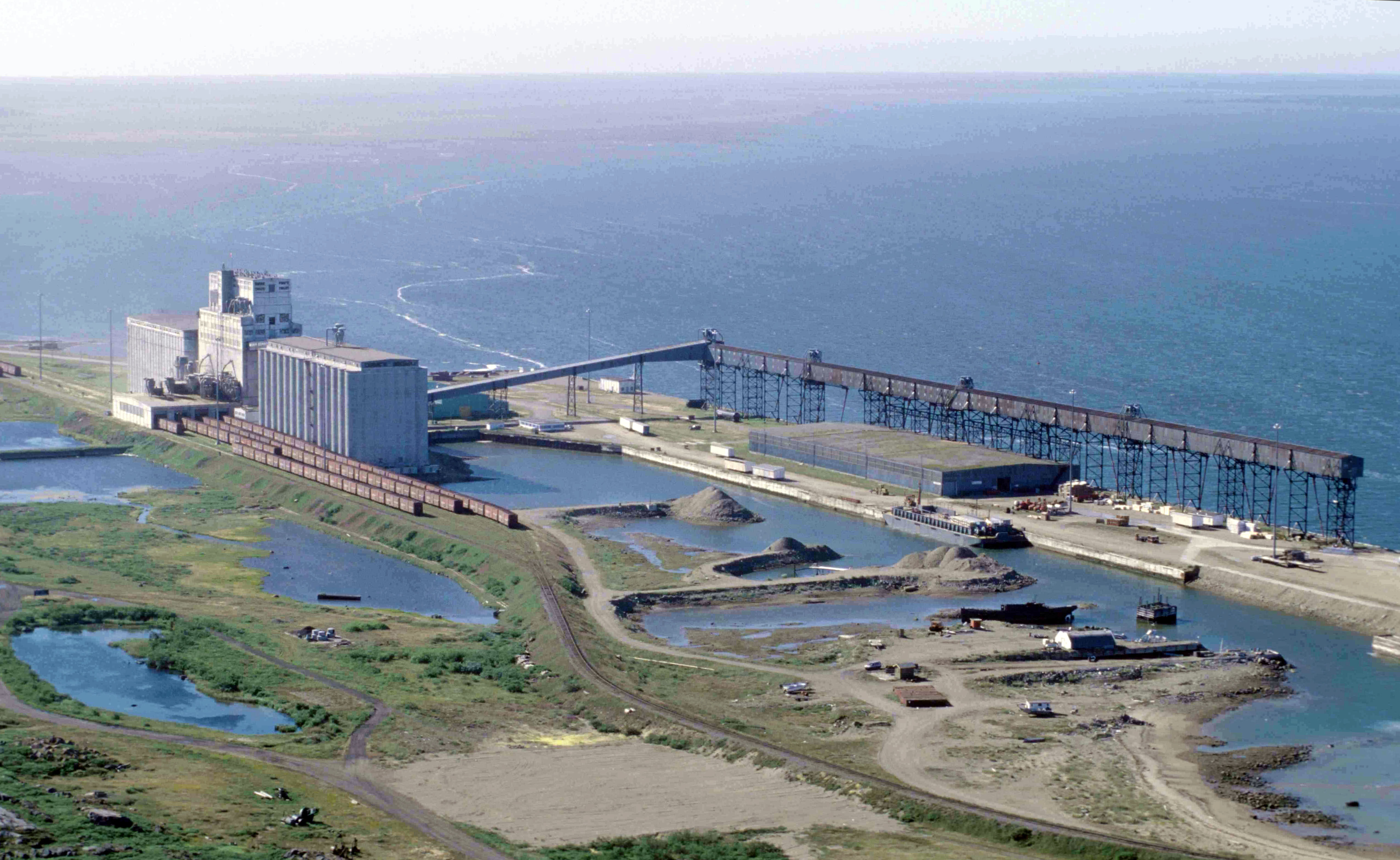 Churchill, Manitoba, Canada: Seaport and granary